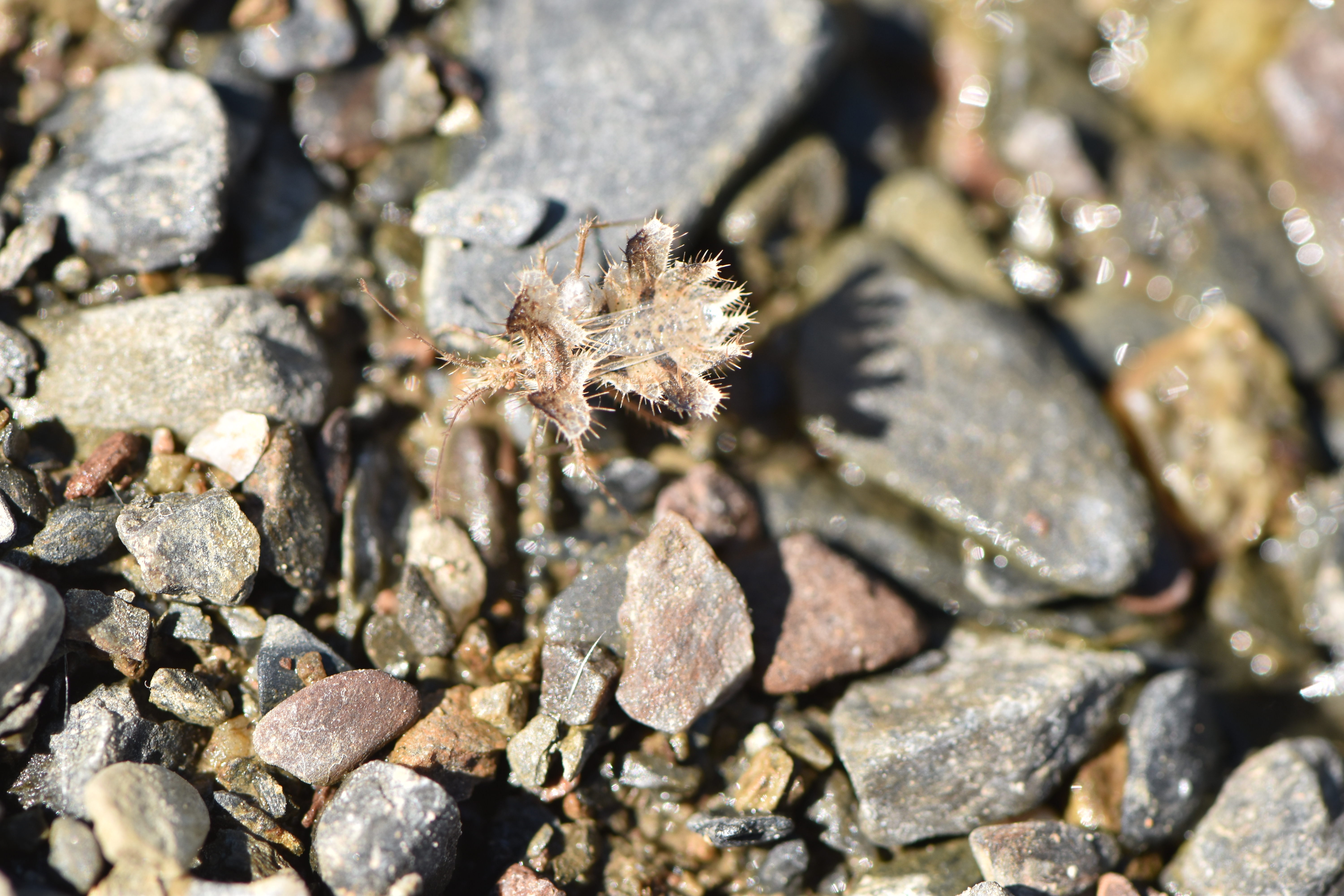 Image of Phyllomorpha laciniata